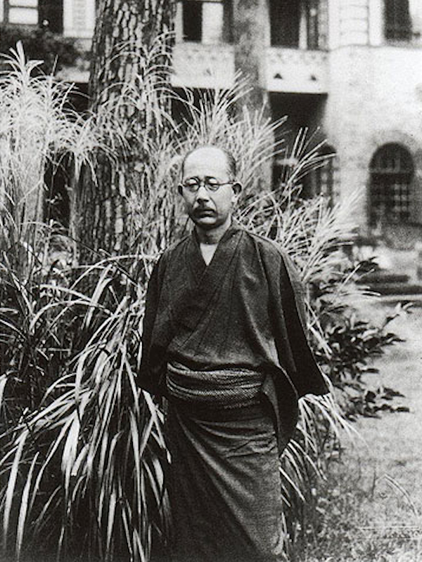 Yūzō Yamamoto (1887–1974)